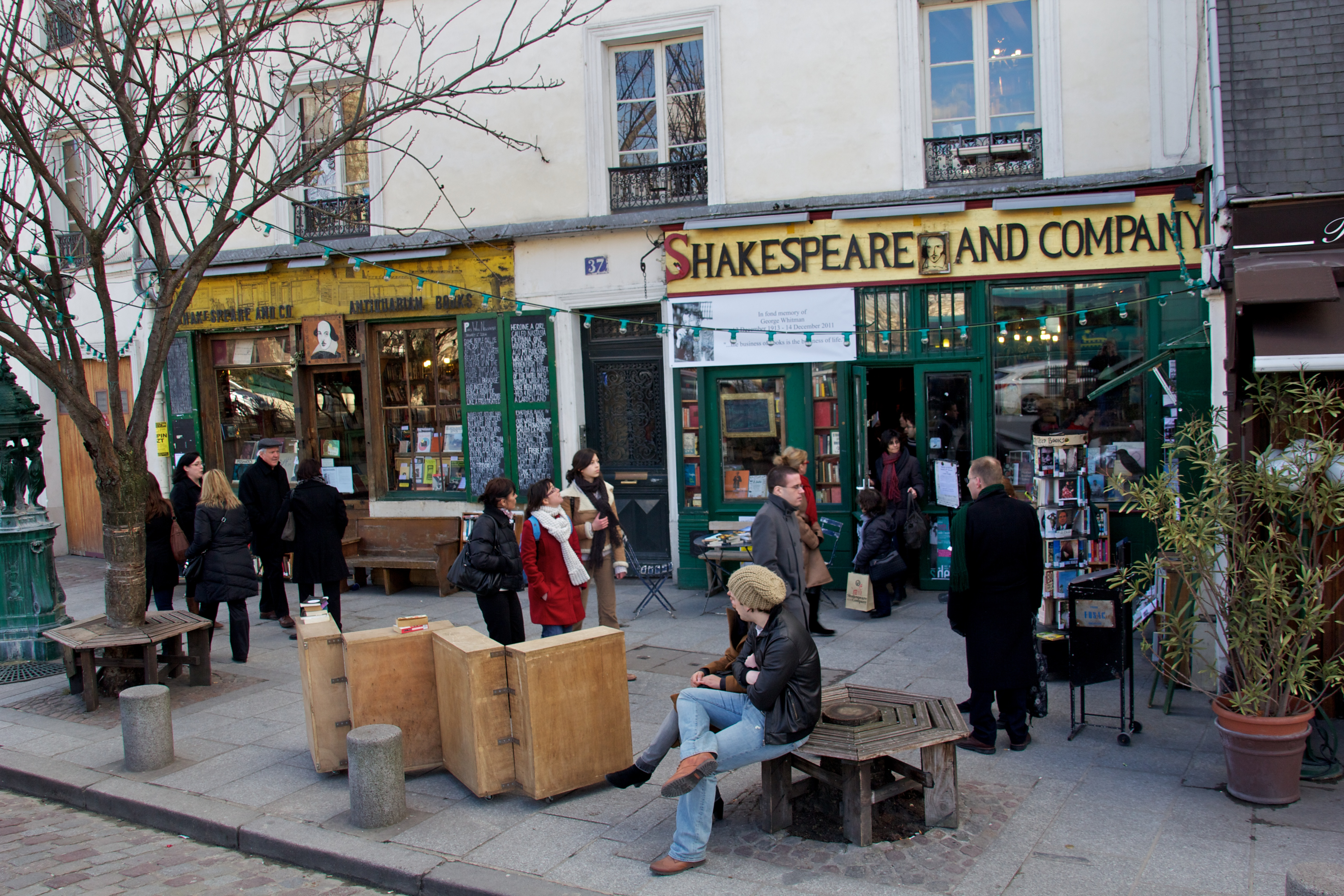 Shakespeare and Company, Paris